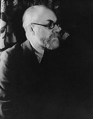 Henri Matisse photo taken by Carl Van Vechten, photographer. CREATED/PUBLISHED 1933 May 20.